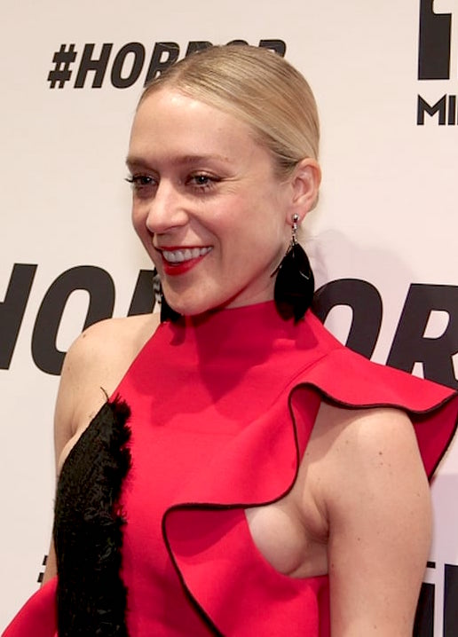 Chloë Sevigny at the Premiere of #Horror at the Museum of Modern Art, 2015